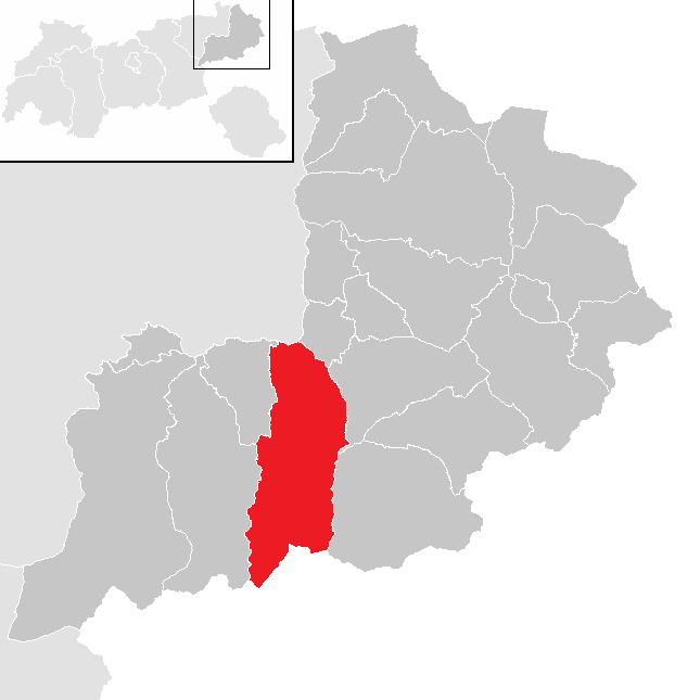 District Kitzbühel